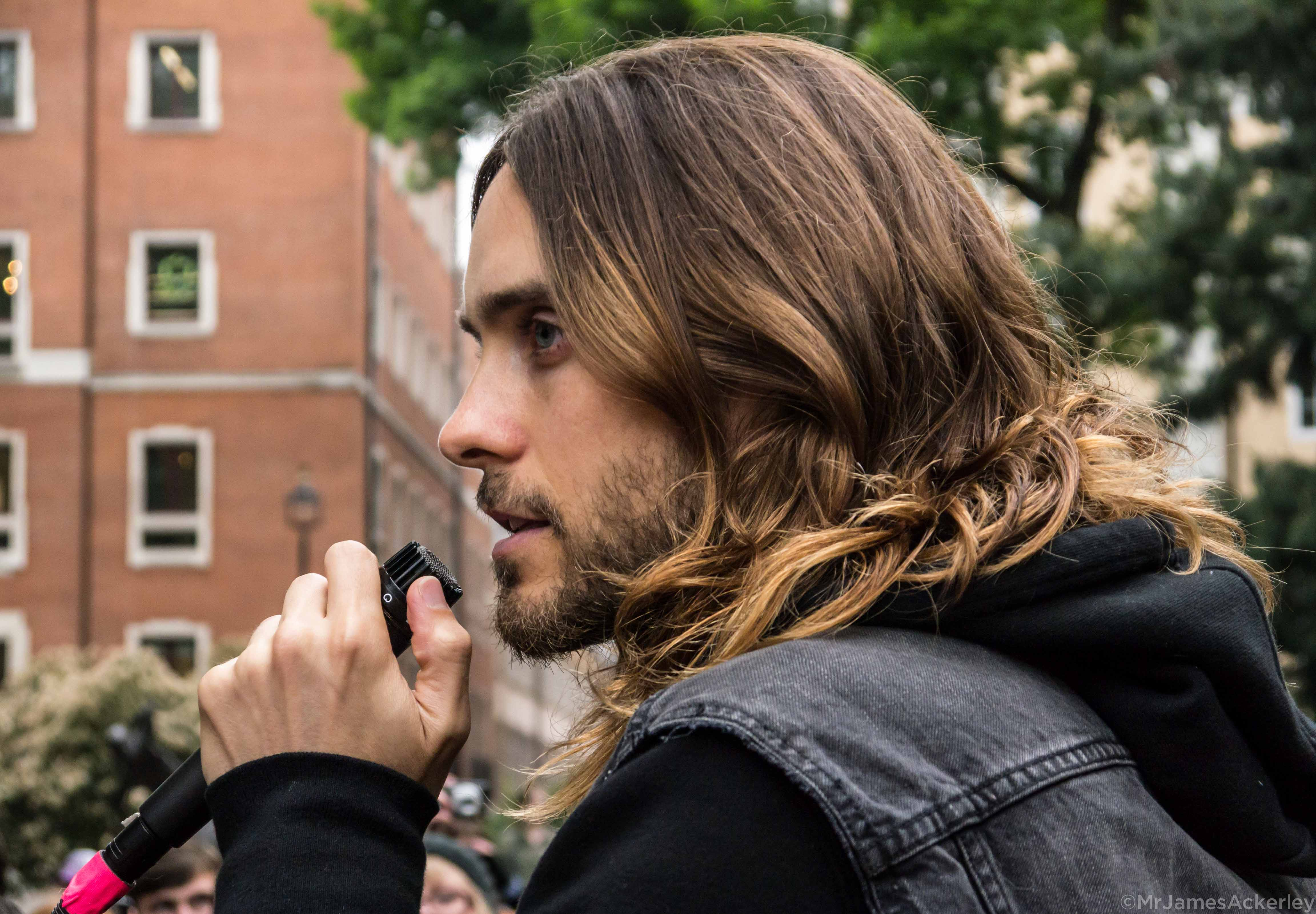 Jared Leto 2013 - taken in Soho Square Gardens, London.